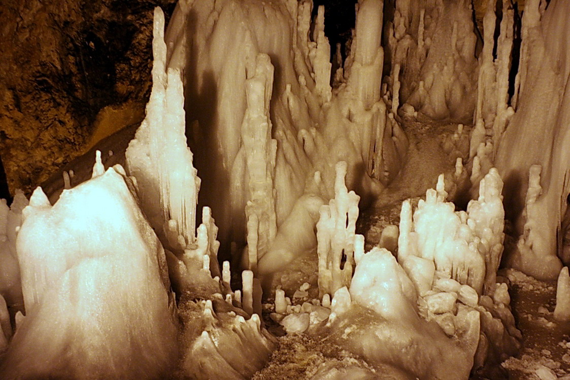 Scărişoara Cave